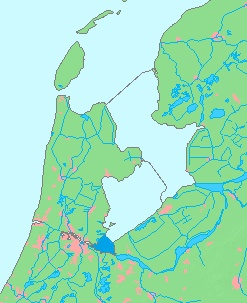 Map of IJmeer, Netherlands